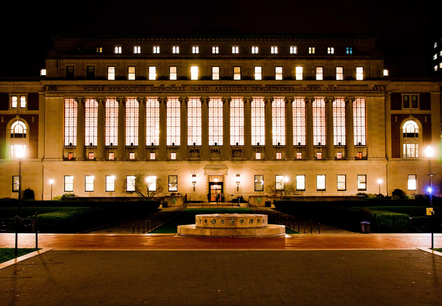 Butler Library at the Morningside Campus